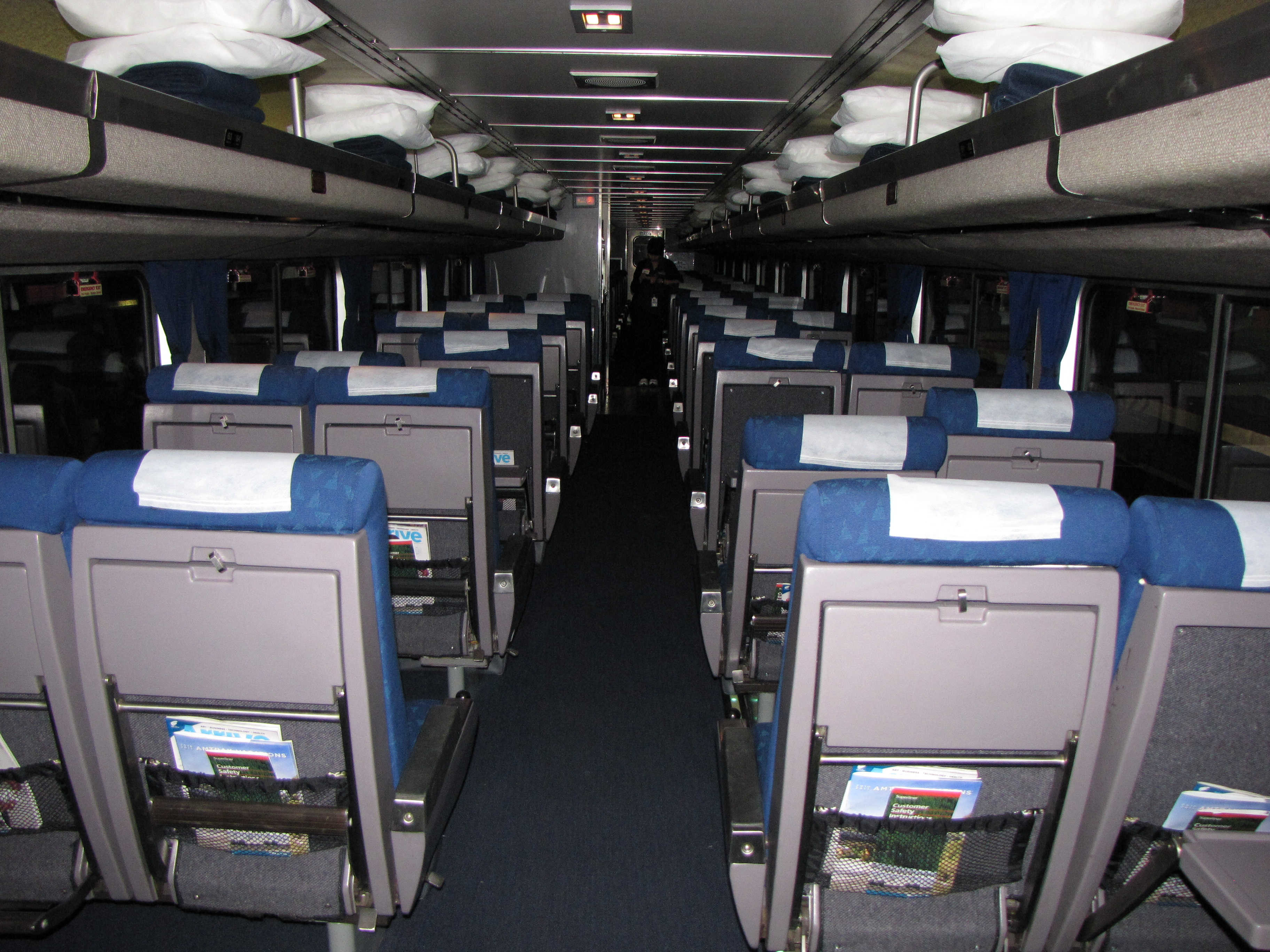 Coachclass seating on Amtrak Superliner cars.